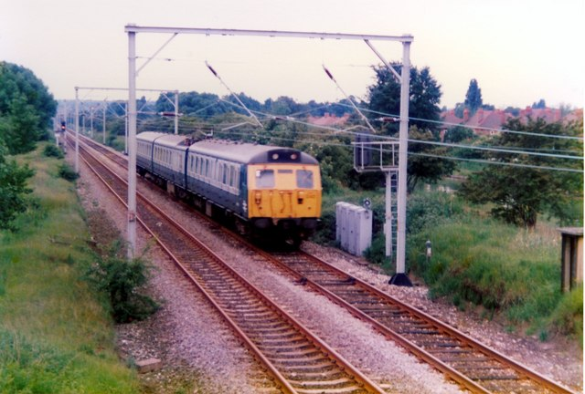 Suburban Sale Railway, canal and inter-war housing between Sale and Timperley.